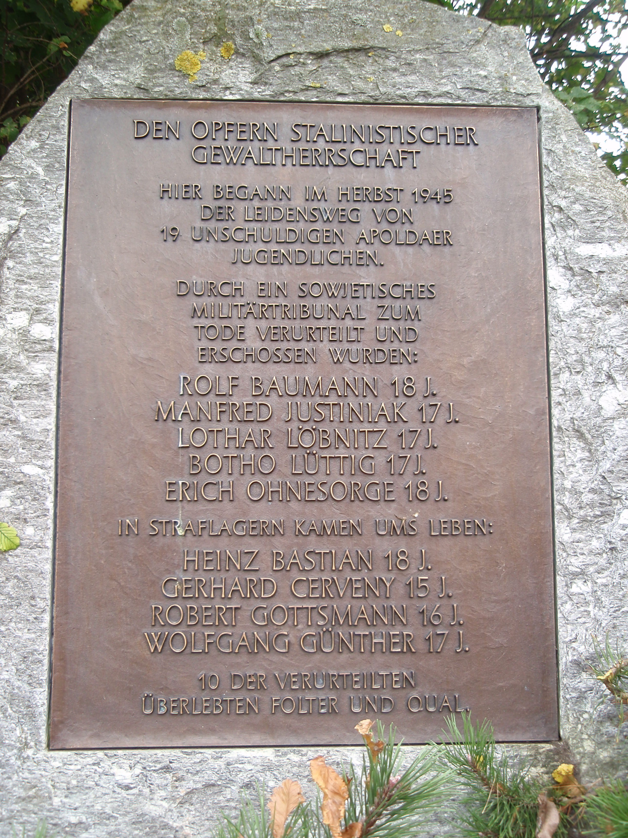 Monument for Victims of Stalinism in Apolda / Thuringia